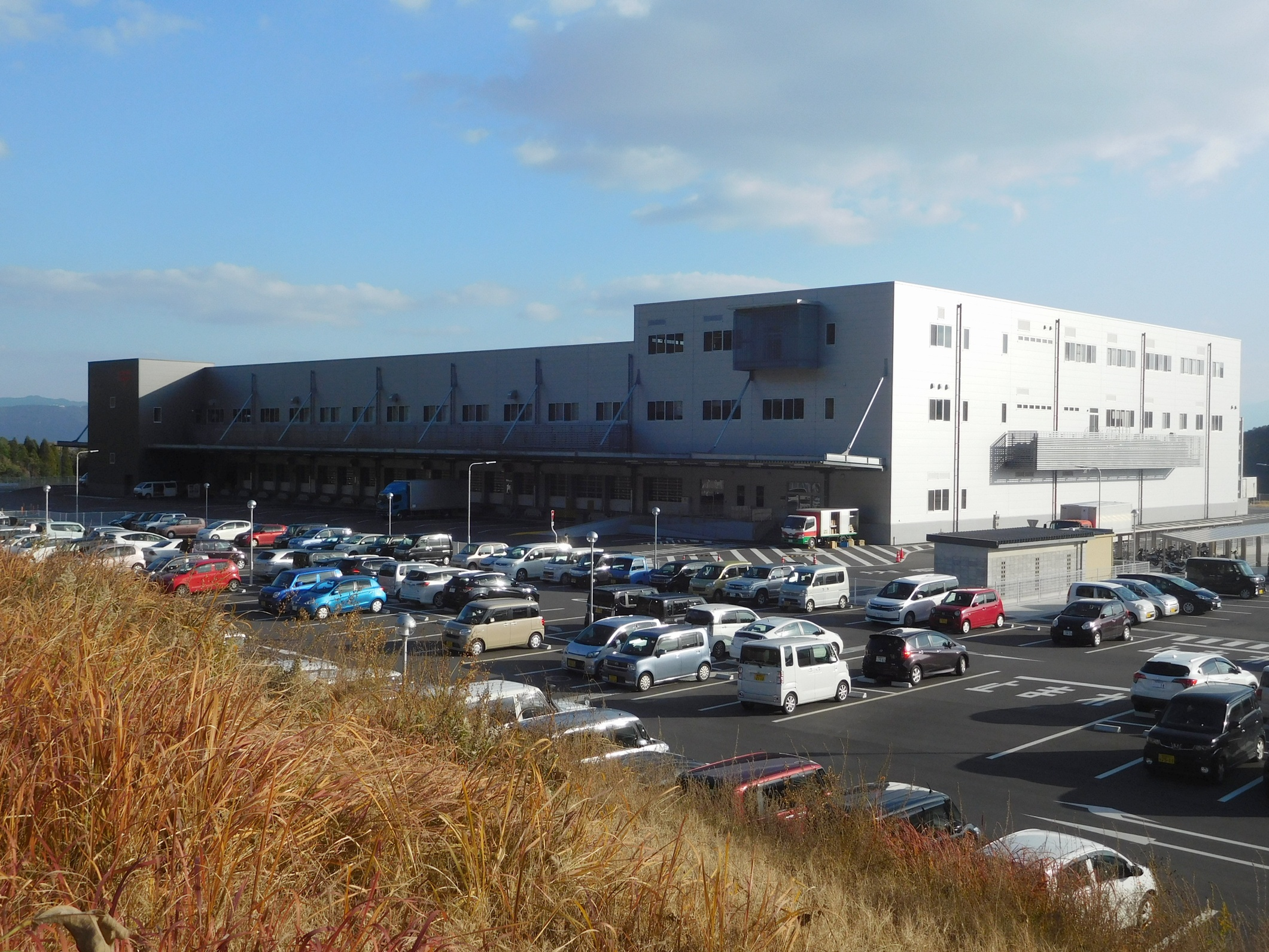 Japan Post - Kagoshima Post Office (Hayato, Kirishima City, Kagoshima Prefecture, Japan)